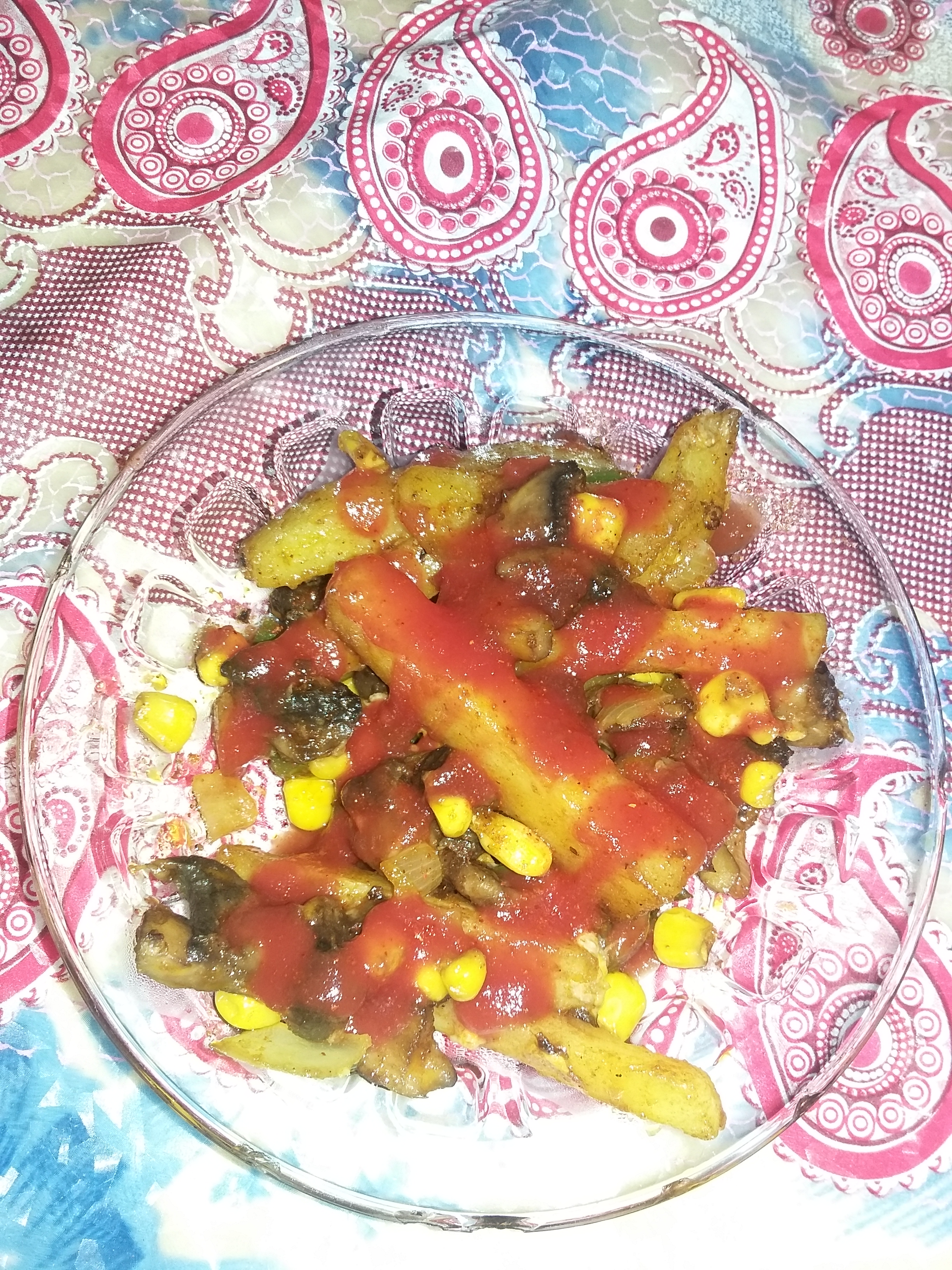 Bakhtiyari or luri fastfood